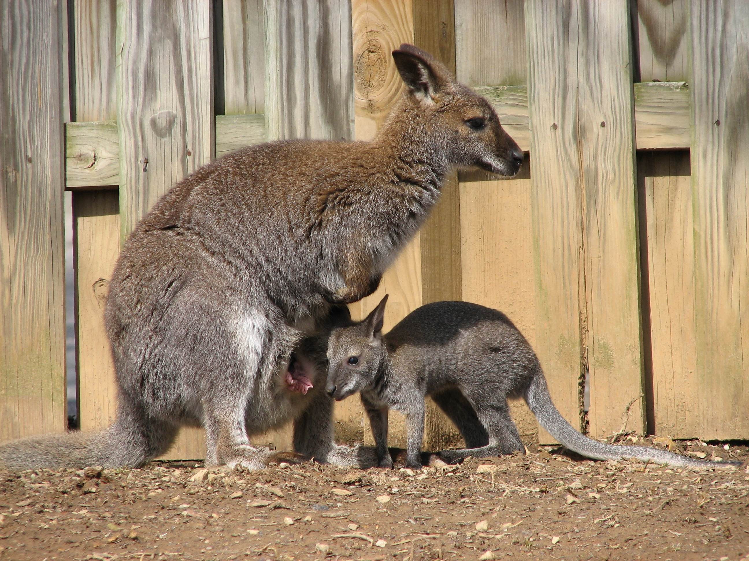 Red-Necked Wallaby with Baby at the Louisville Zoo